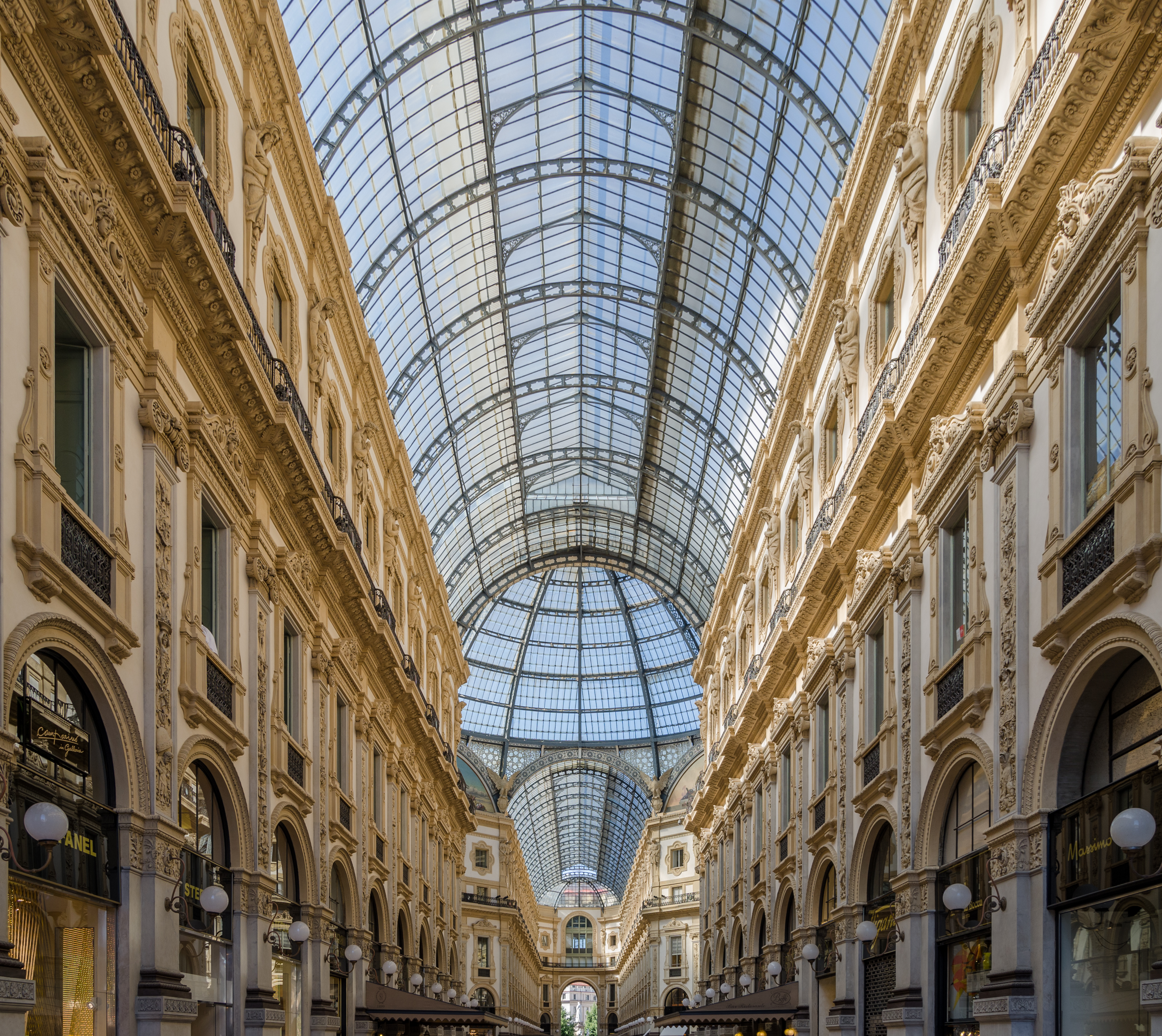 Milan (Lombardy, Italy) – historic shopping mall Galleria Vittorio Emanuele II – view through the vertical aisle to the north